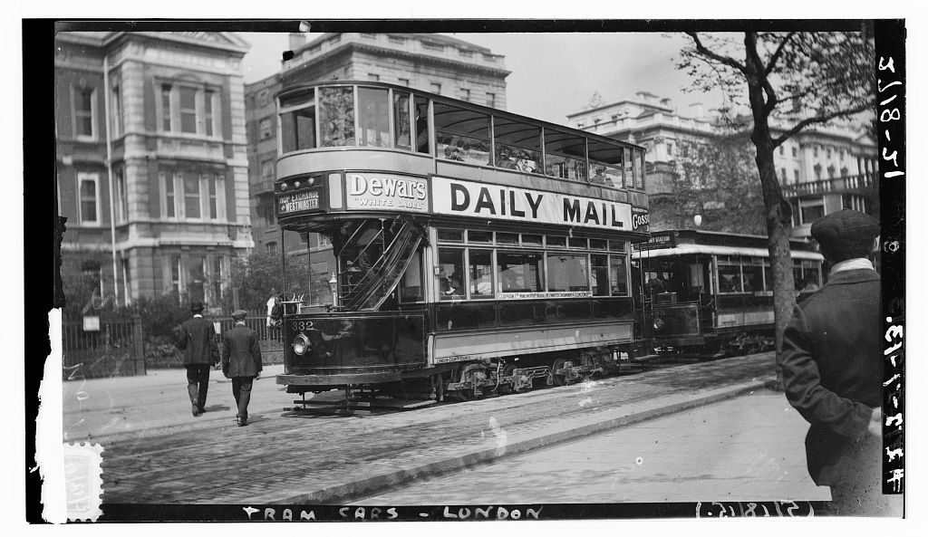 London Tram Cars with LCC on side of tram indicates London County Council.